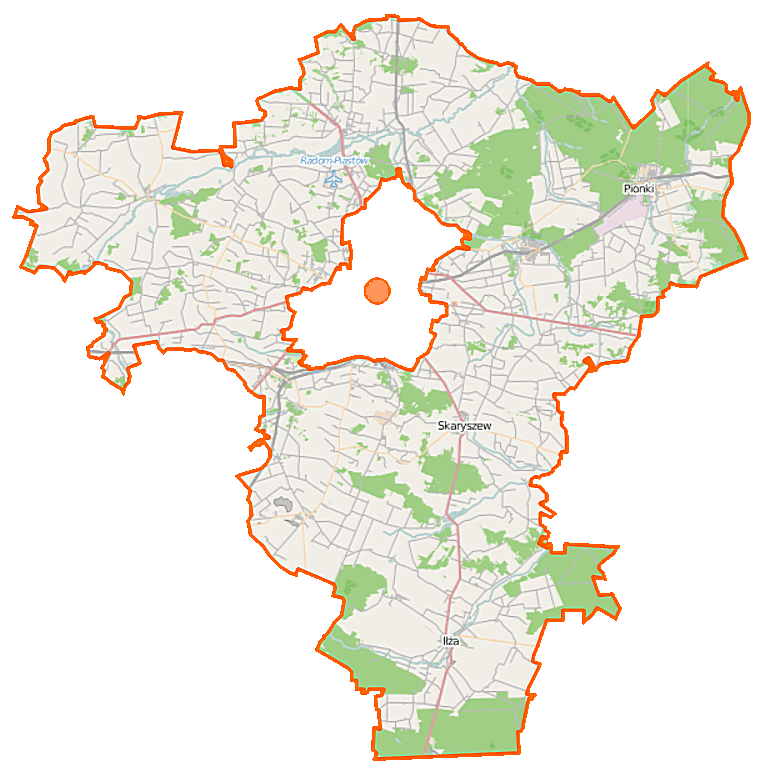 Map of Powiat radomski, Poland This map of Powiat radomski was created from OpenStreetMap project data, collected by the community. This map may be incomplete, and may contain errors. Don't rely solely on it for navigation. Border coordinates51.602720.7422←↕→21.592351.0647